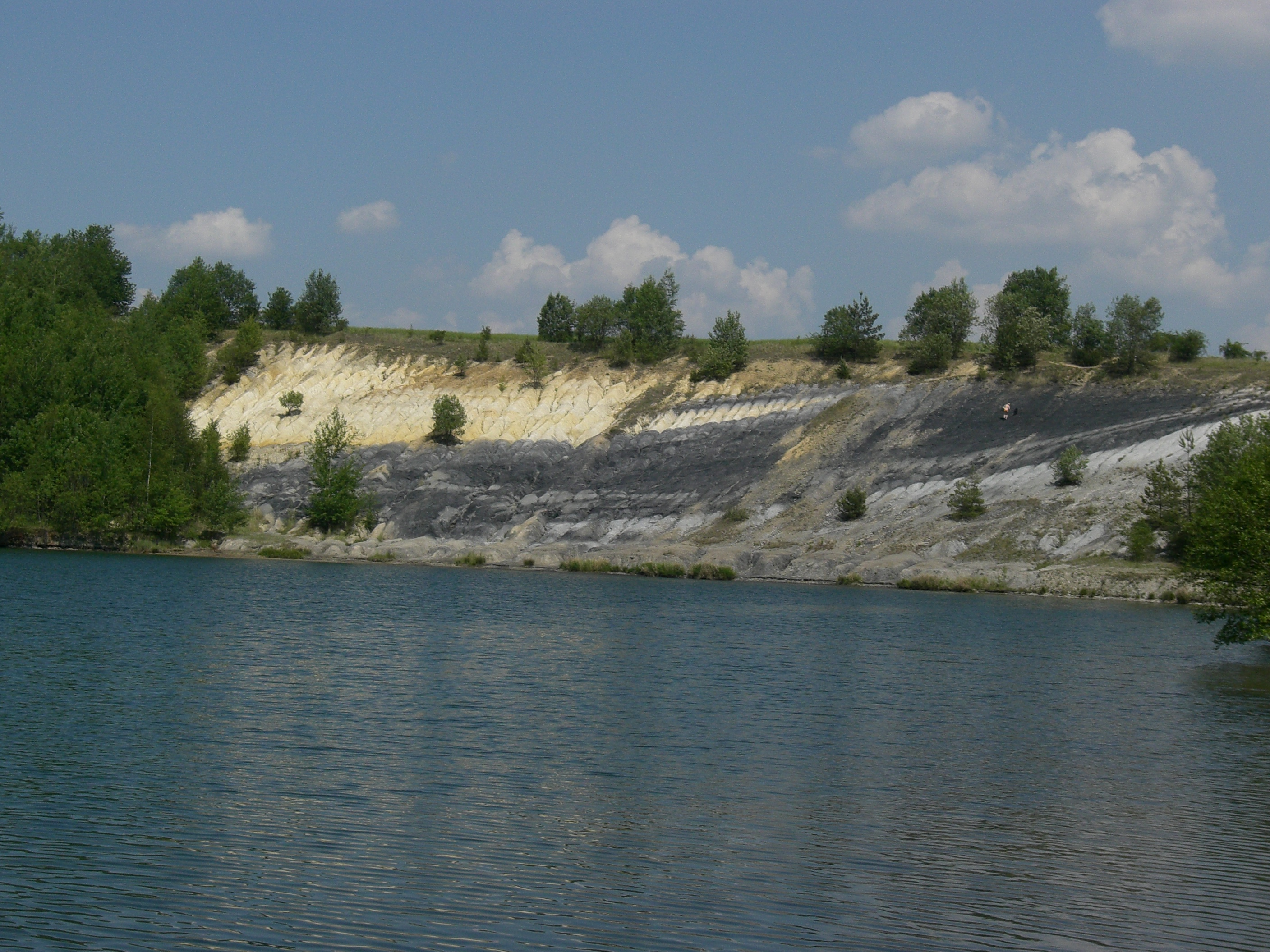 Ovčín u Radnic near Plzeň - paleontology area, Czech Republic.49°50′46.2″N 13°36′32.62″E / 49.846167°N 13.6090611°E